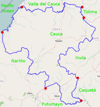 Created using MWSnap and GIMP. Red dots indicate where administrative boundaries intersect. The underlying image is from OpenStreetMap; .